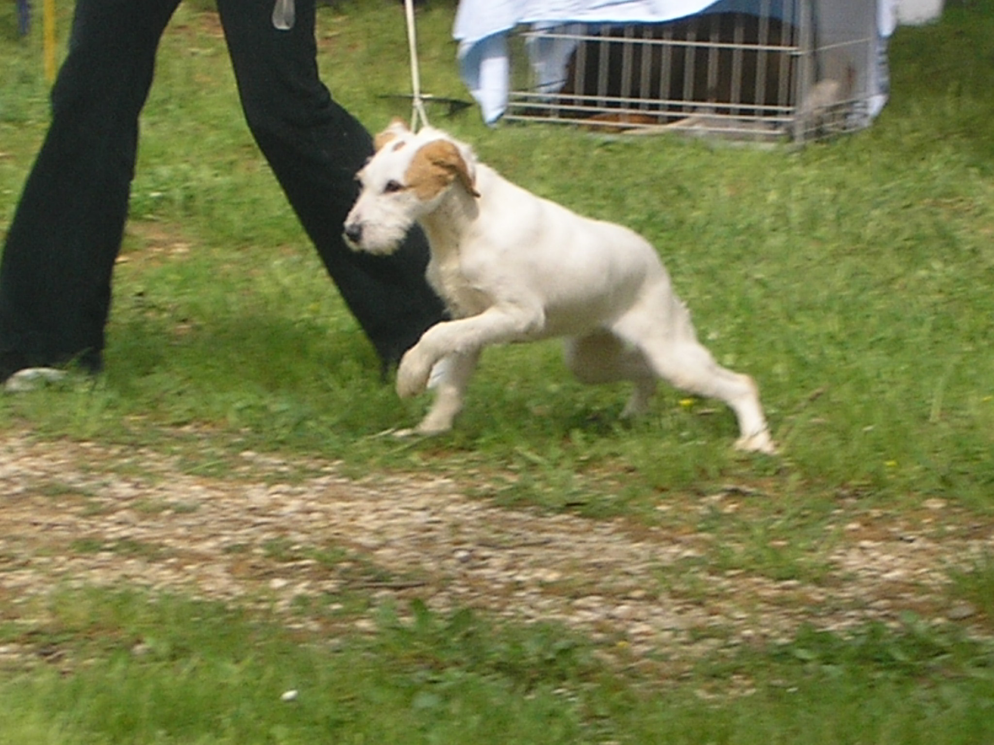 Istrian Coarse-haired Hound at a dog show in Zadar, Croatia (CACIB 2006.)